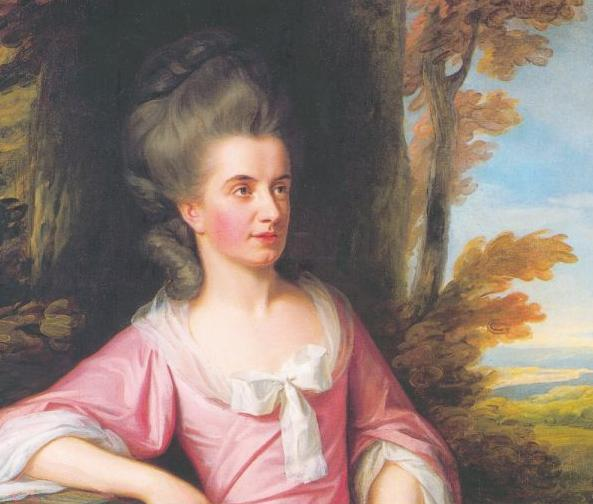 Portrait of Martha Ray (c. 1742-1779) - DETAIL